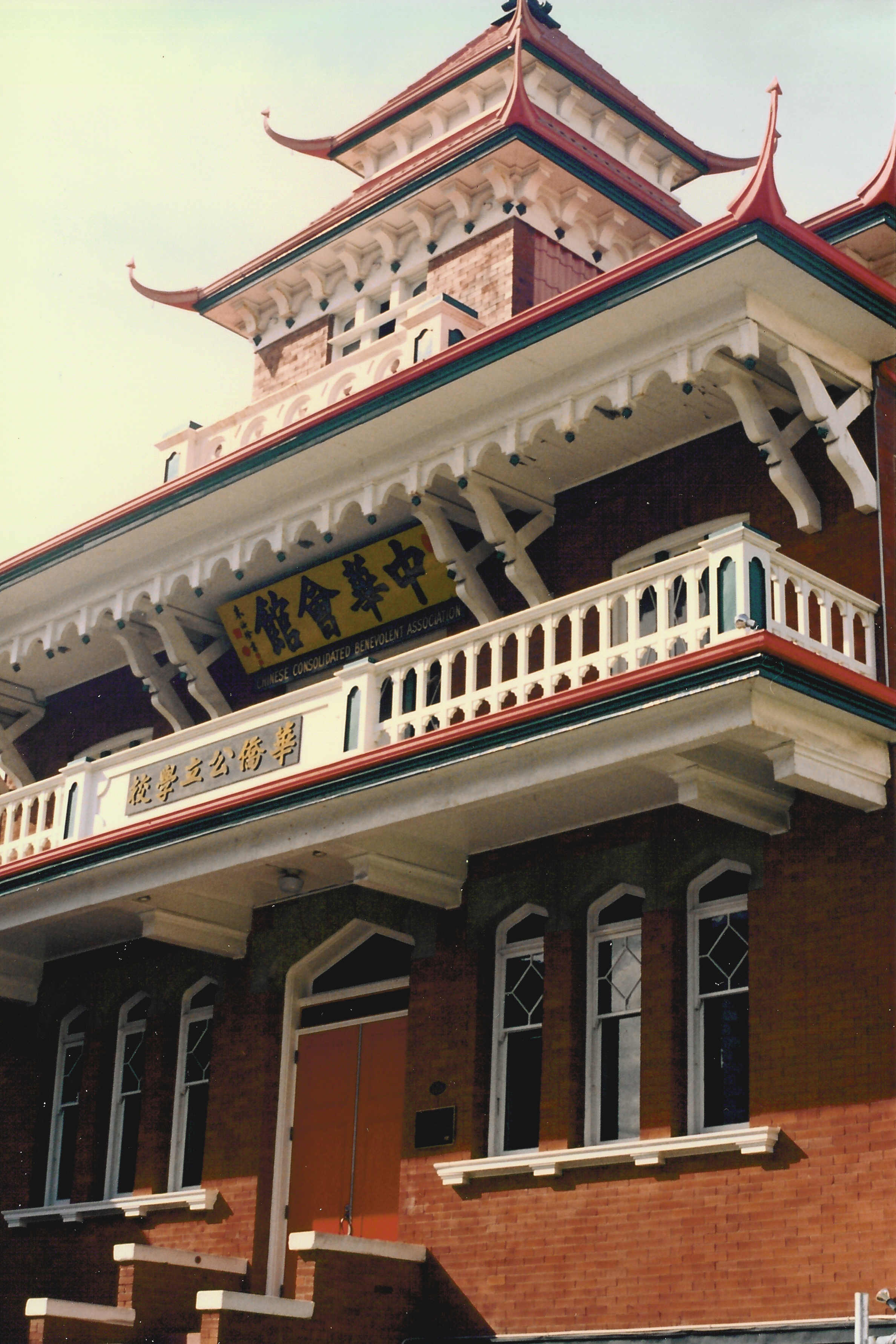 Chinese Consolidated Benevolent Association and Chinese Public School, Victoria, British Columbia.